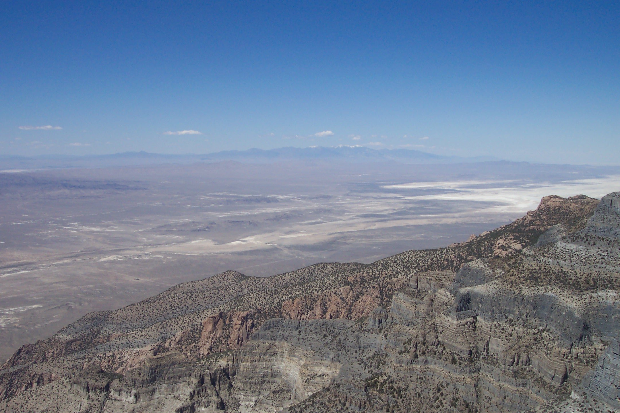 From Notch Peak